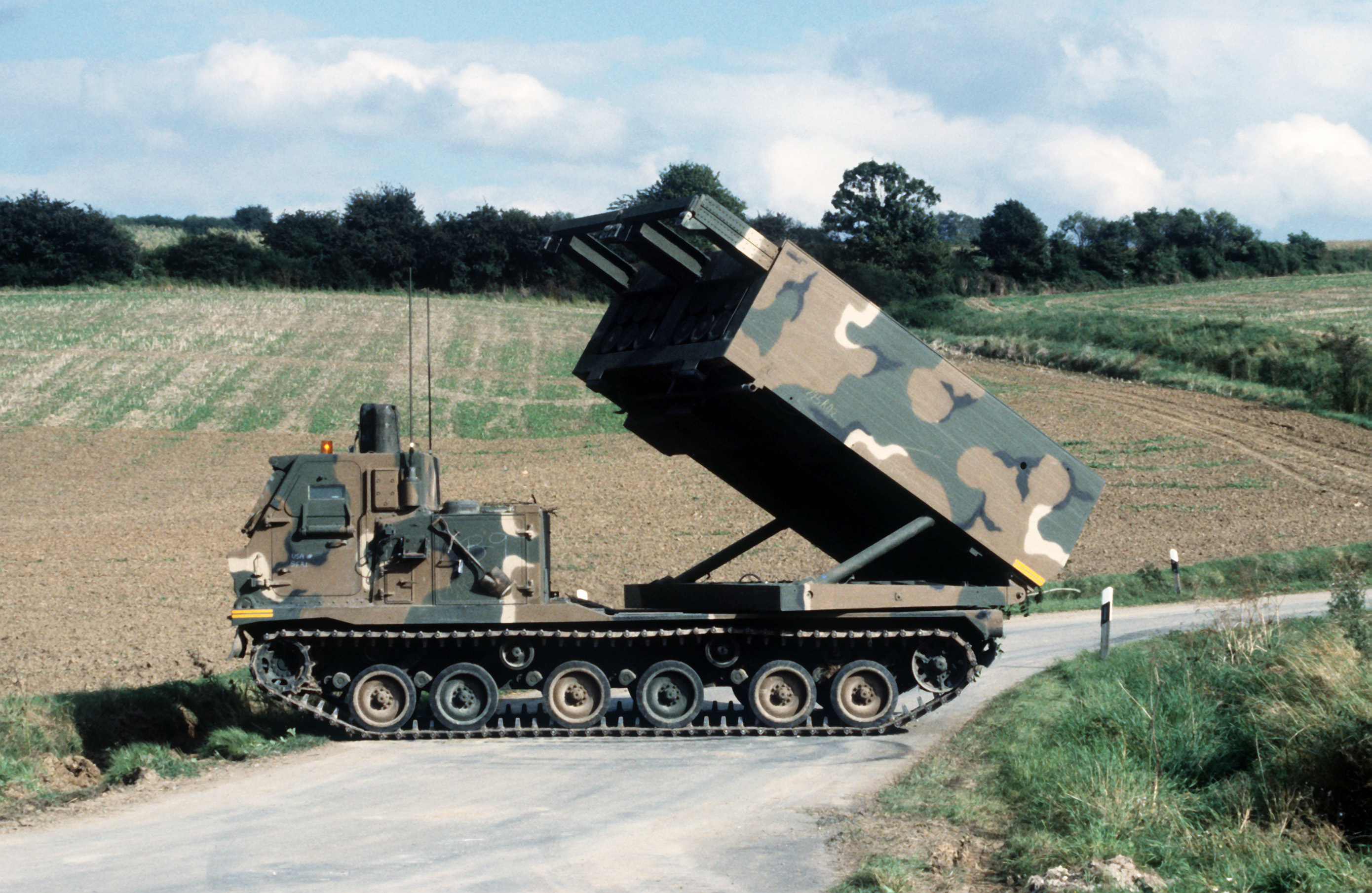 A 227 mm multiple launch rocket system elevates its launcher loader module to firing position during Exercise REFORGER '85.